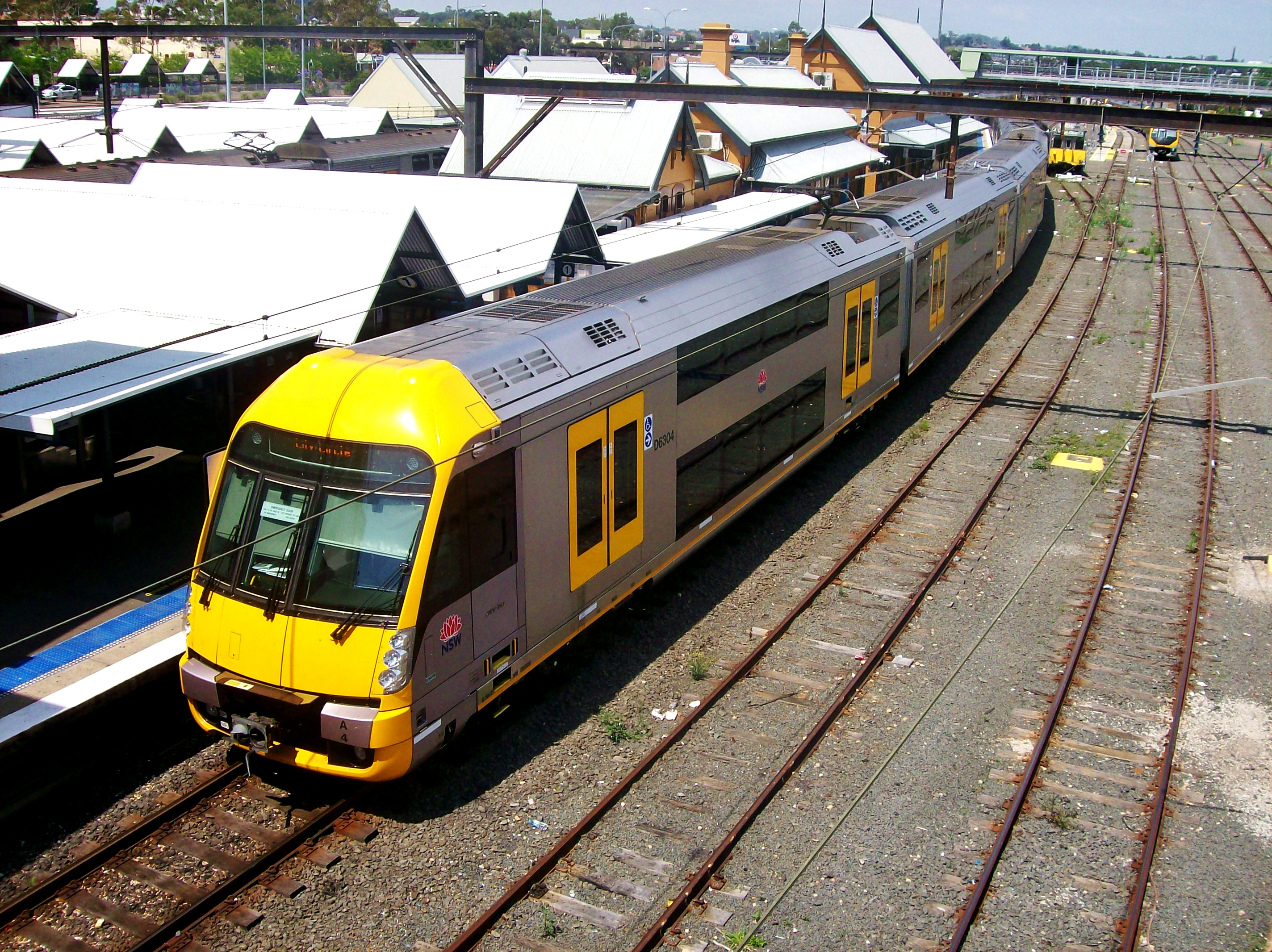 CityRail A Set Waratah exterior view